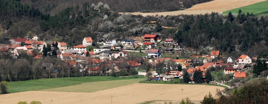 An overall view of Nenačovice from the southeast